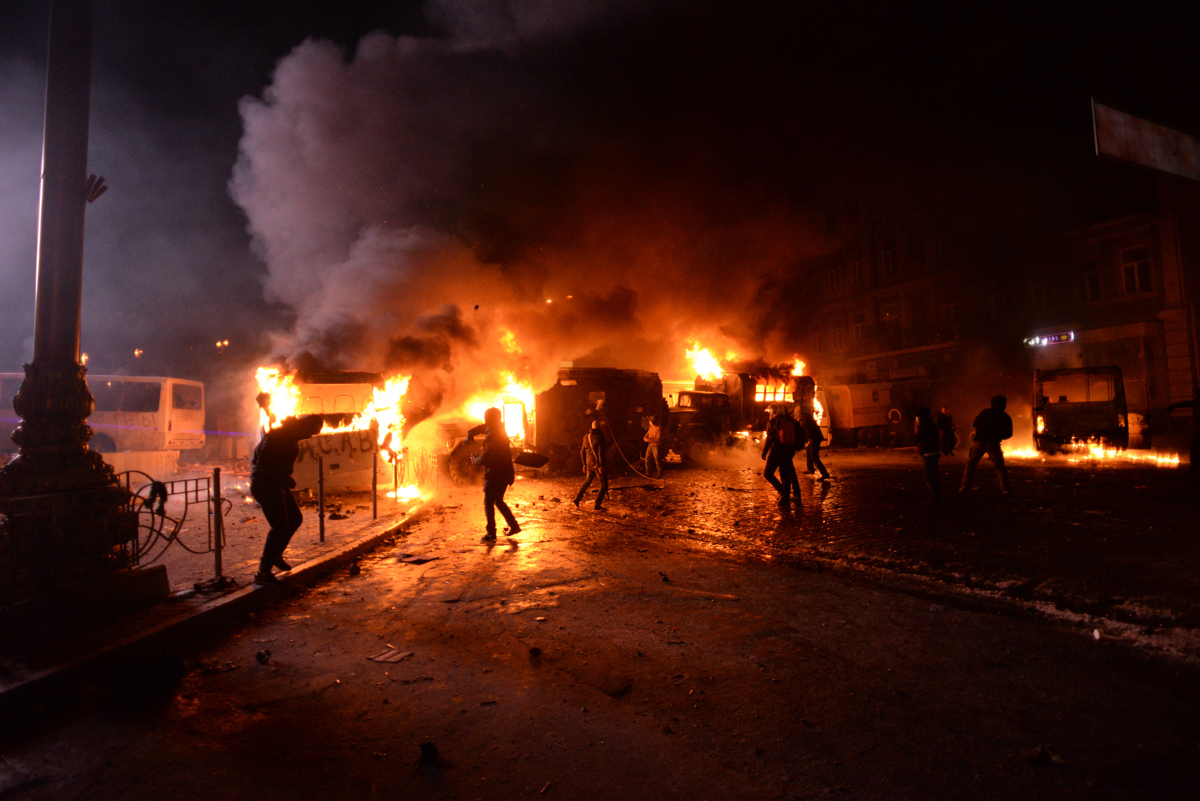 Radically oriented protesters throwing Molotov cocktails in direction of Interior troops positions. Dynamivska str. Euromaidan Protests. Events of Jan 19, 2014-5